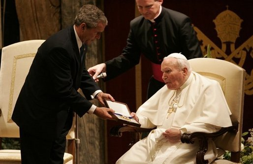 US President George W. Bush presents the Presidential Medal of Freedom to Pope John Paul II during a visit to the Vatican in Rome, Italy in June 2004.